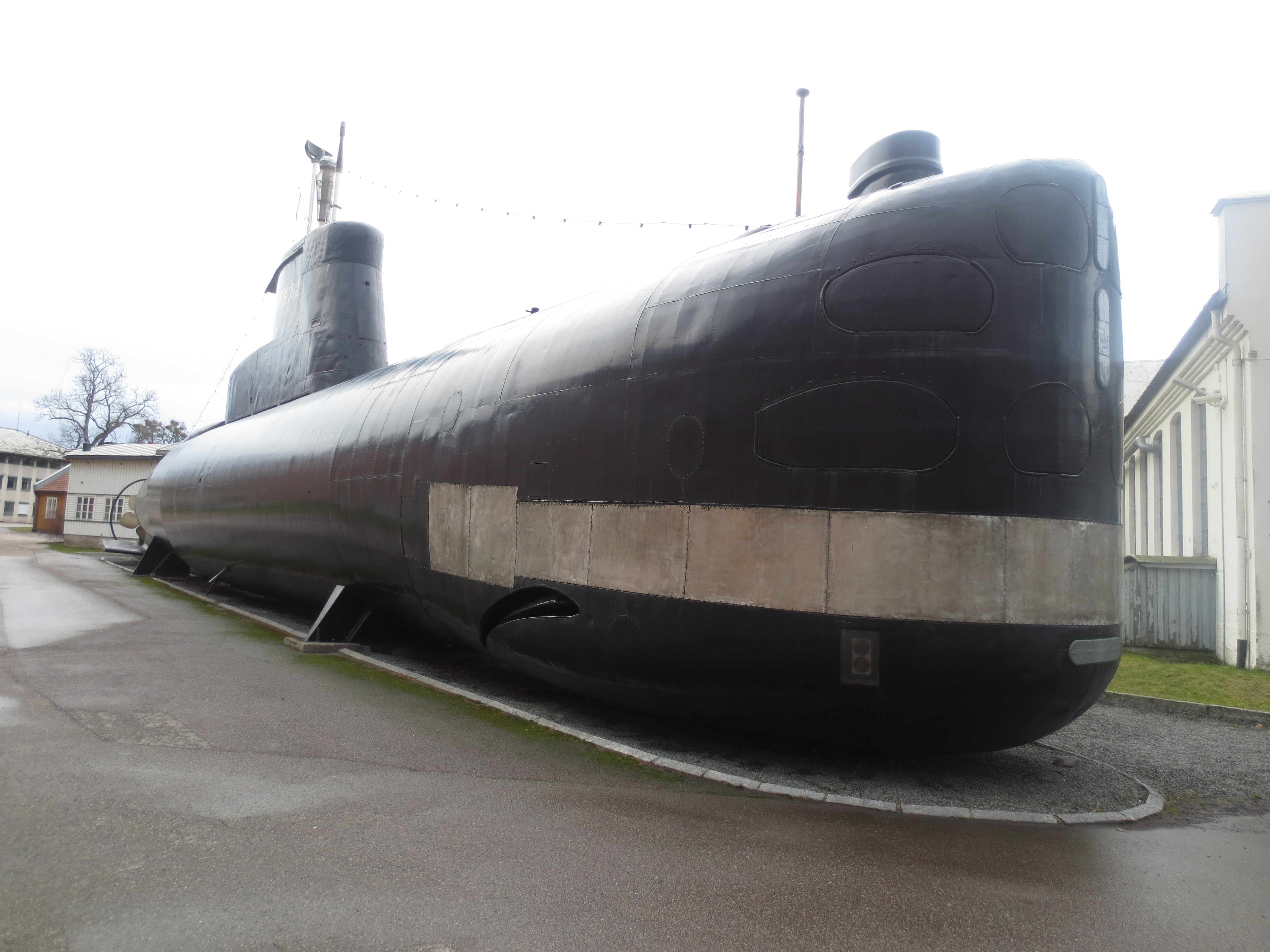 Image from the Royal Norwegian Naval Museum, Horten.